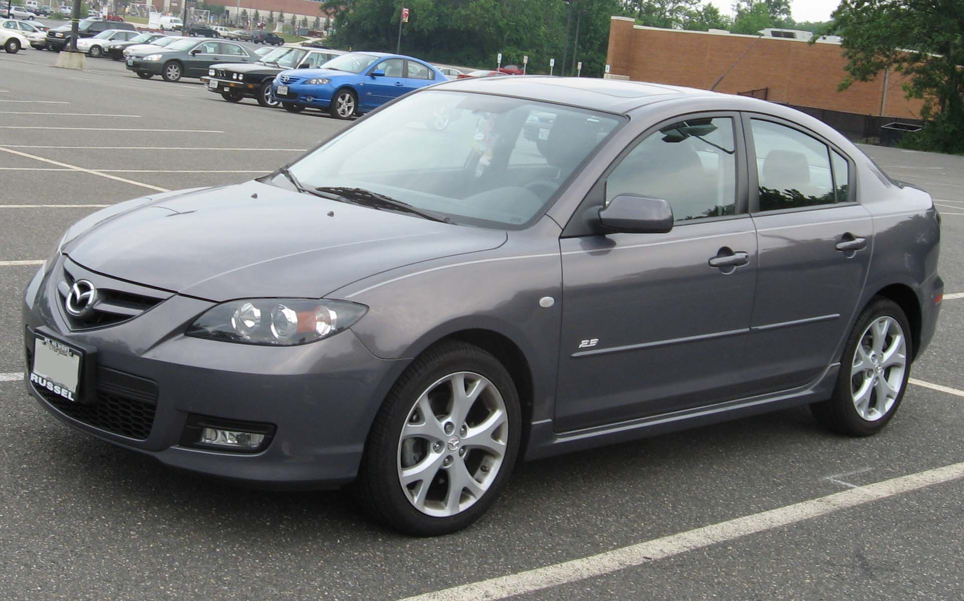 2007 Mazda3 photographed in USA.